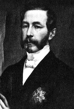 Louis Gericke van Herwijnen. Minister of Foreign Affairs of the Netherlands (1871-1874)